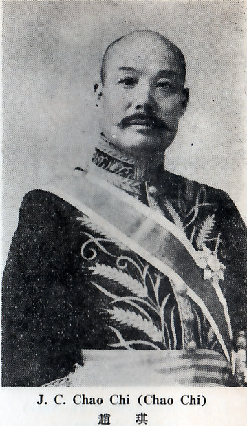 Zhao Qi (Chao Ch'ih, J.C.Chao Chi) (born 1882)